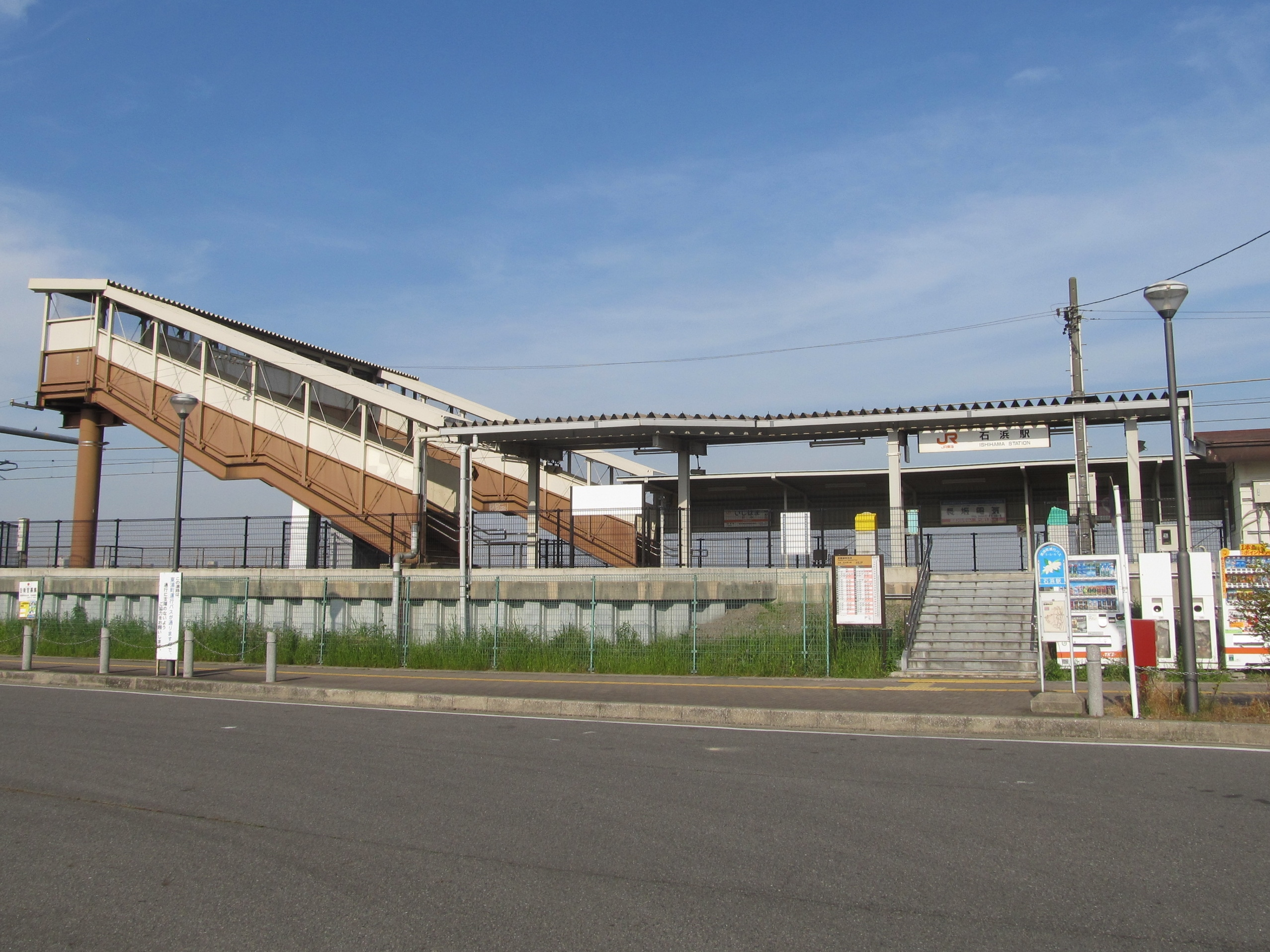 Central Japan Railway Taketoyo Line Ishihama Station Gate